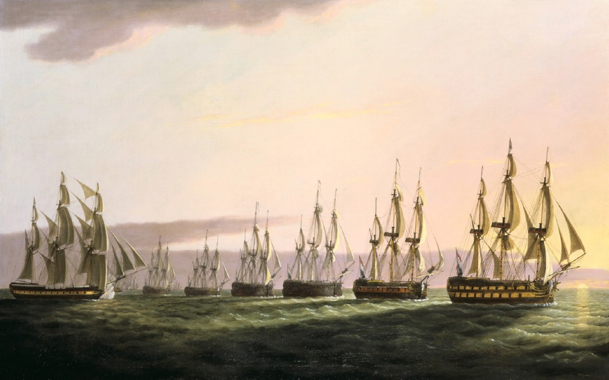 The owner of the East Indiaman '"General Goddard, Robert Wigram, commissioned the artist Thomas Luny to paint the picture to commemorate Captain Money's achievement.